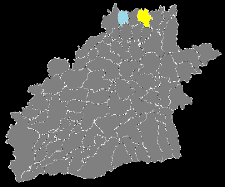 Hungarian minority in Sibiu County (Romania), according to the 2011 census, by communes (yellow = hungarian minority over 20%, blue = hungarian minority between 10 - 20%, grey = hungarian minority under 10%).